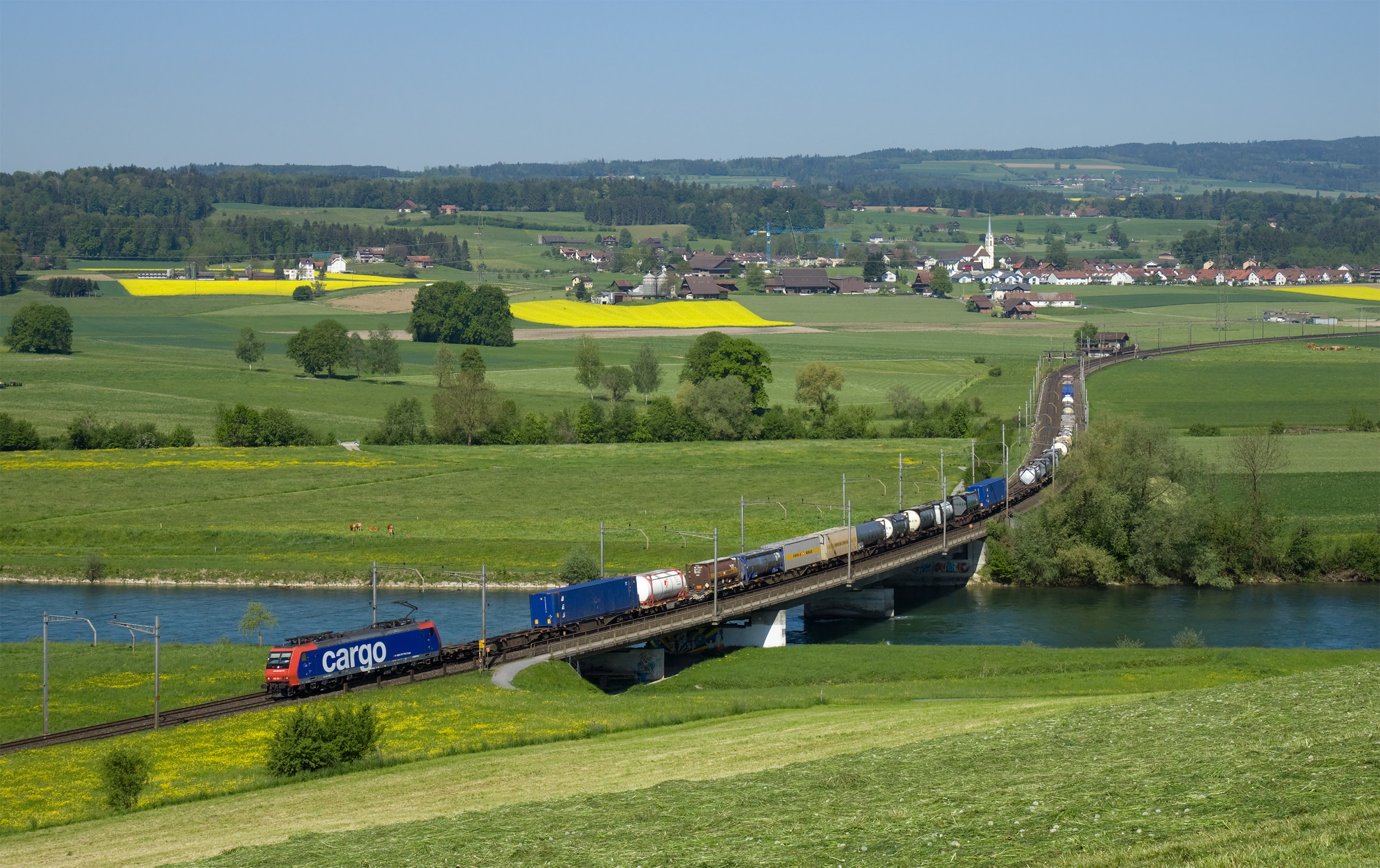 SBB Cargo Re 482 with a freight train crossing the river Reuss near Oberrüti, in Aargau canton, Switzerland.